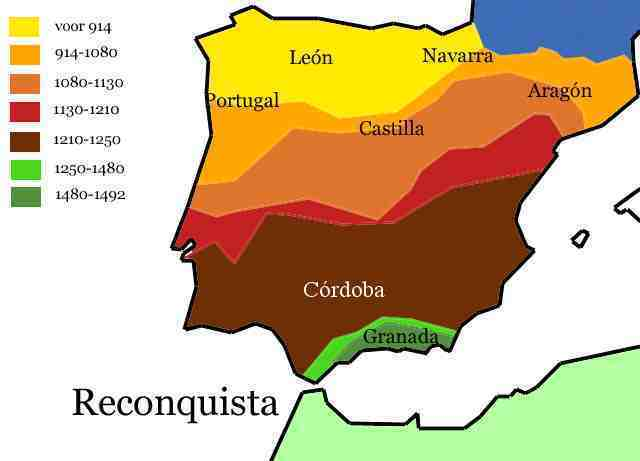 Map of development of the Reconquista on the Iberian Peninsula from year 914 until 1492